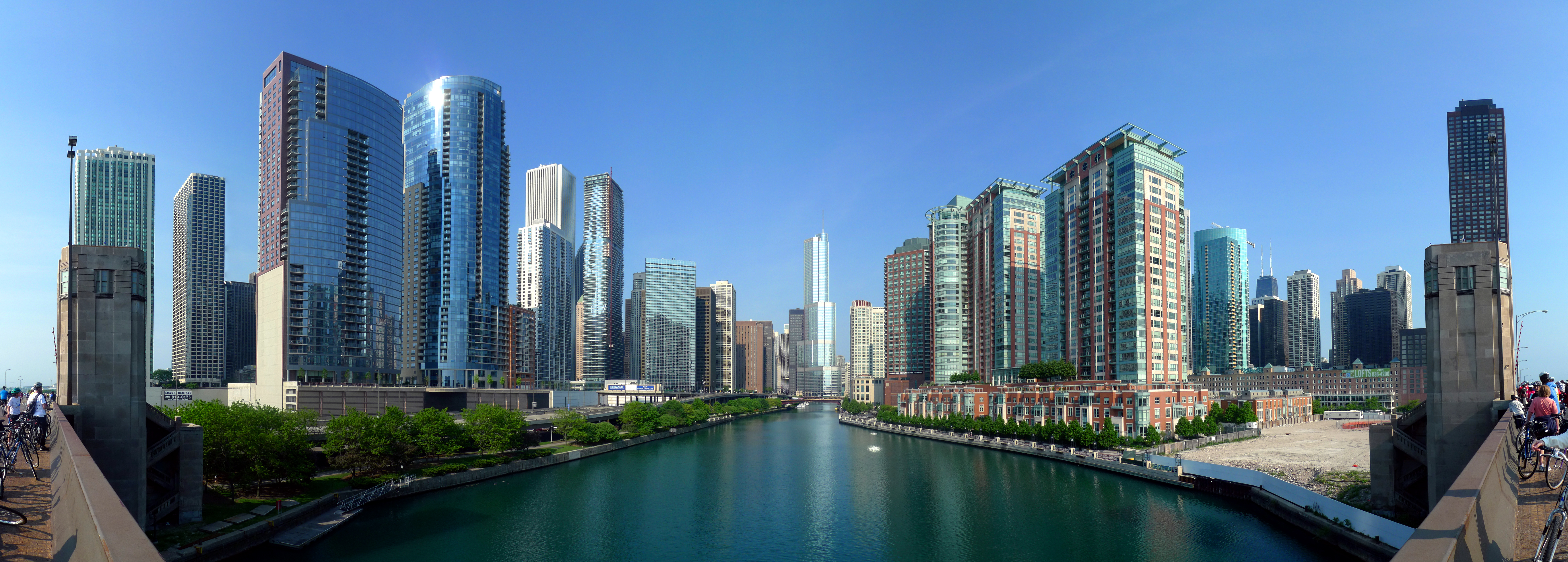 The Chicago River is the south border of the Near North Side and Streeterville and the north border of the Loop, Lakeshore East and Illinois Center (viewed from Lake Shore Drive with Trump International Hotel and Tower at the jog in the river at the center. This 6-part composite panorama shows the optical center of the main branch of the Chicago River looking west (currently downstream) as seen from a pedestrian path on the Lake Shore Drive Bridge. The Trump Tower is at center (SOM), with Mies van der Rohe's 330 North Wabash slightly to the left of center. On the right bank is Streeterville, and the northern Loop is on the left. From left to right: The Parkshore, North Harbor Tower (both set back), The Chandler, The Regatta, The Tides, Aon Center (background), Aqua, Swissotel Chicago, Columbus Plaza, Hyatt Regency Chicago (west tower), One Illinois Center, Marina City, 330 North Wabash, Trump International Hotel & Tower Chicago, Sheraton Chicago Hotel & Towers, Cityfront Place, River View (west & east towers), Parkshore East, McClurg Court Center, John Hancock Center, 400 East Ohio, the Chicago Spire site, 401 East Ontario, Lake Shore Plaza, Onterie Center, North Pier Apartments